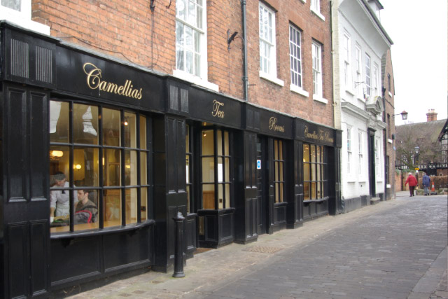 St Alkmond's Place, Shrewsbury A customer is being served in these traditional tea rooms, opposite St Alkmond's church.